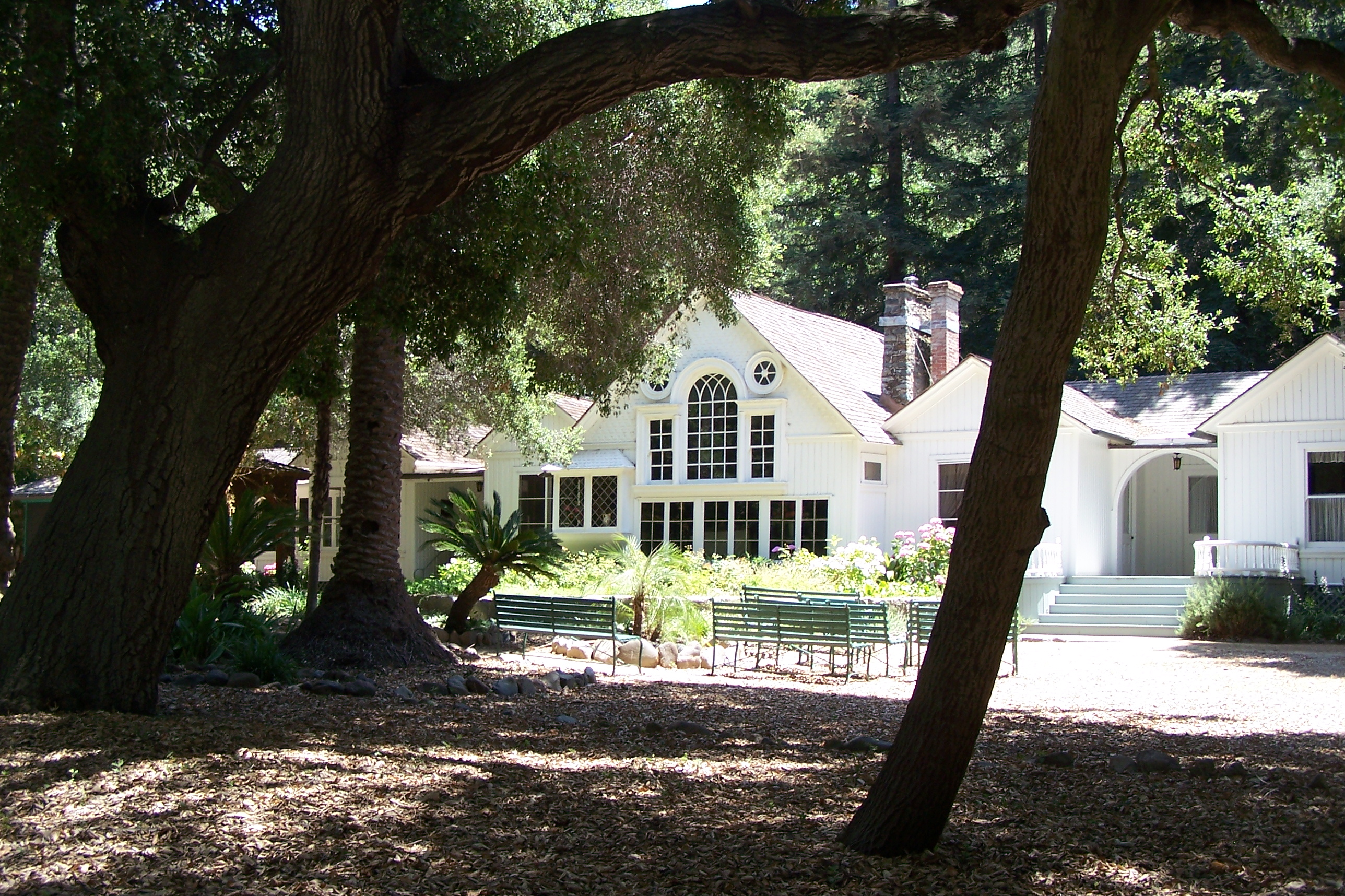 The Arden Helena Modjeska house. There are other smaller houses and gardens as well. If you wish to see it, you need to make an appointment, as it is usually only open once a month to tour groups.